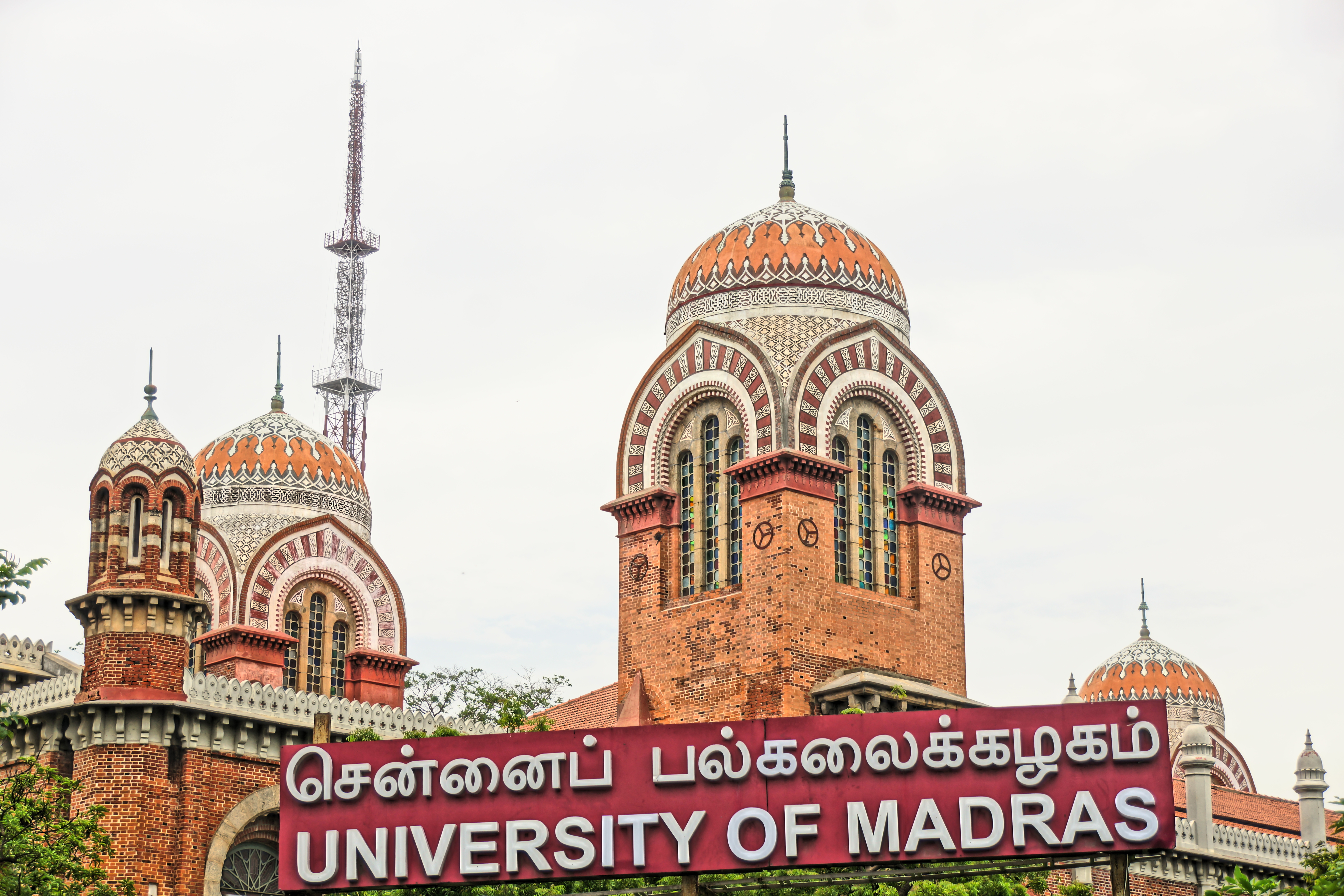 University of Madaras